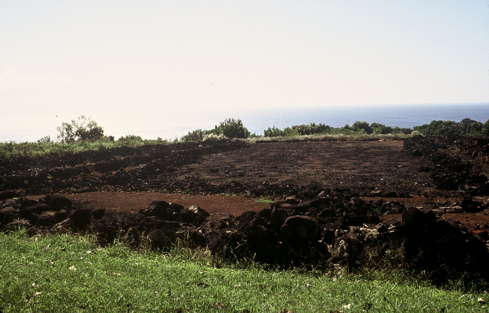 Ruins at Mahuka Heiau